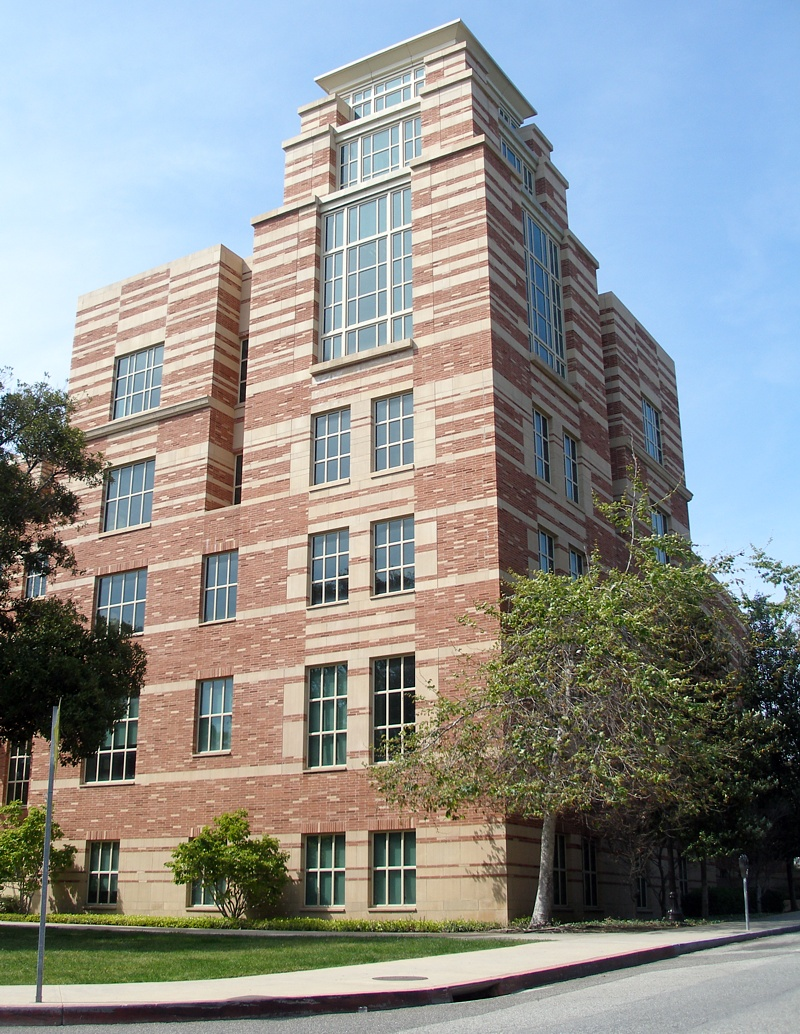 The five-story tower of the Hugh and Hazel Darling Law Library, at the UCLA School of Law on the campus of the University of California in Westwood, Los Angeles.